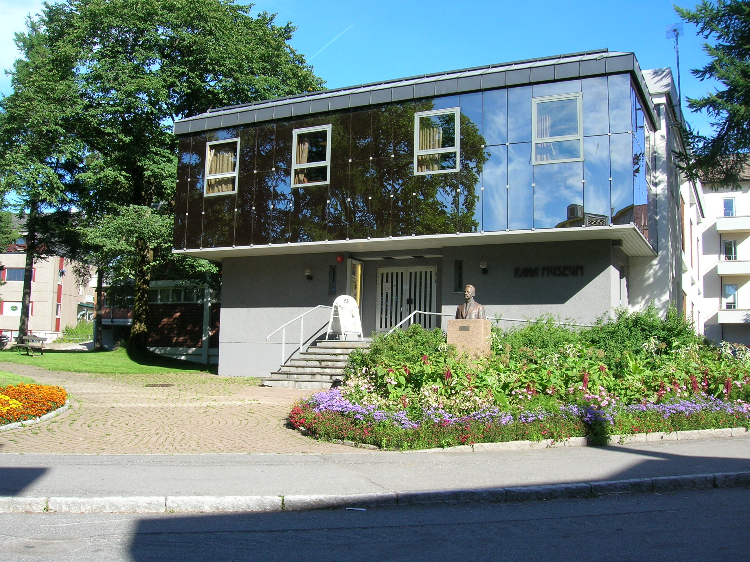 Mo i Rana. Museumsbygningen i sentrum (kulturhistorisk avdeling).Photo taken on August 24, 2005 with a NIKON Coolpix 5600 5,1 Megapixel camera.